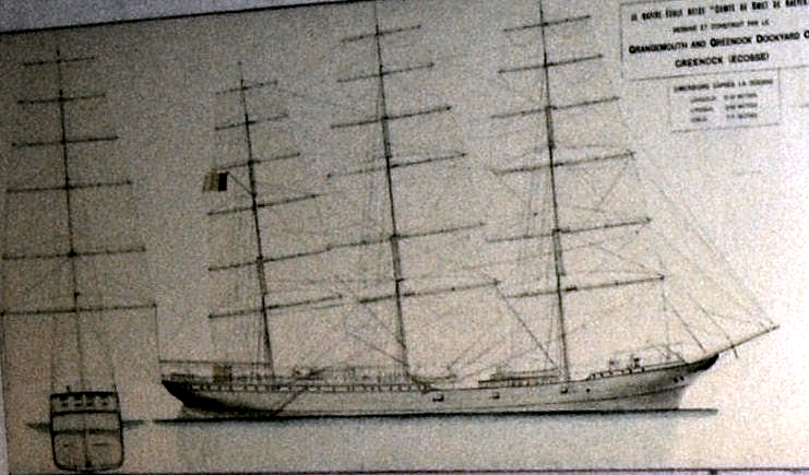 picture taken from map 1905